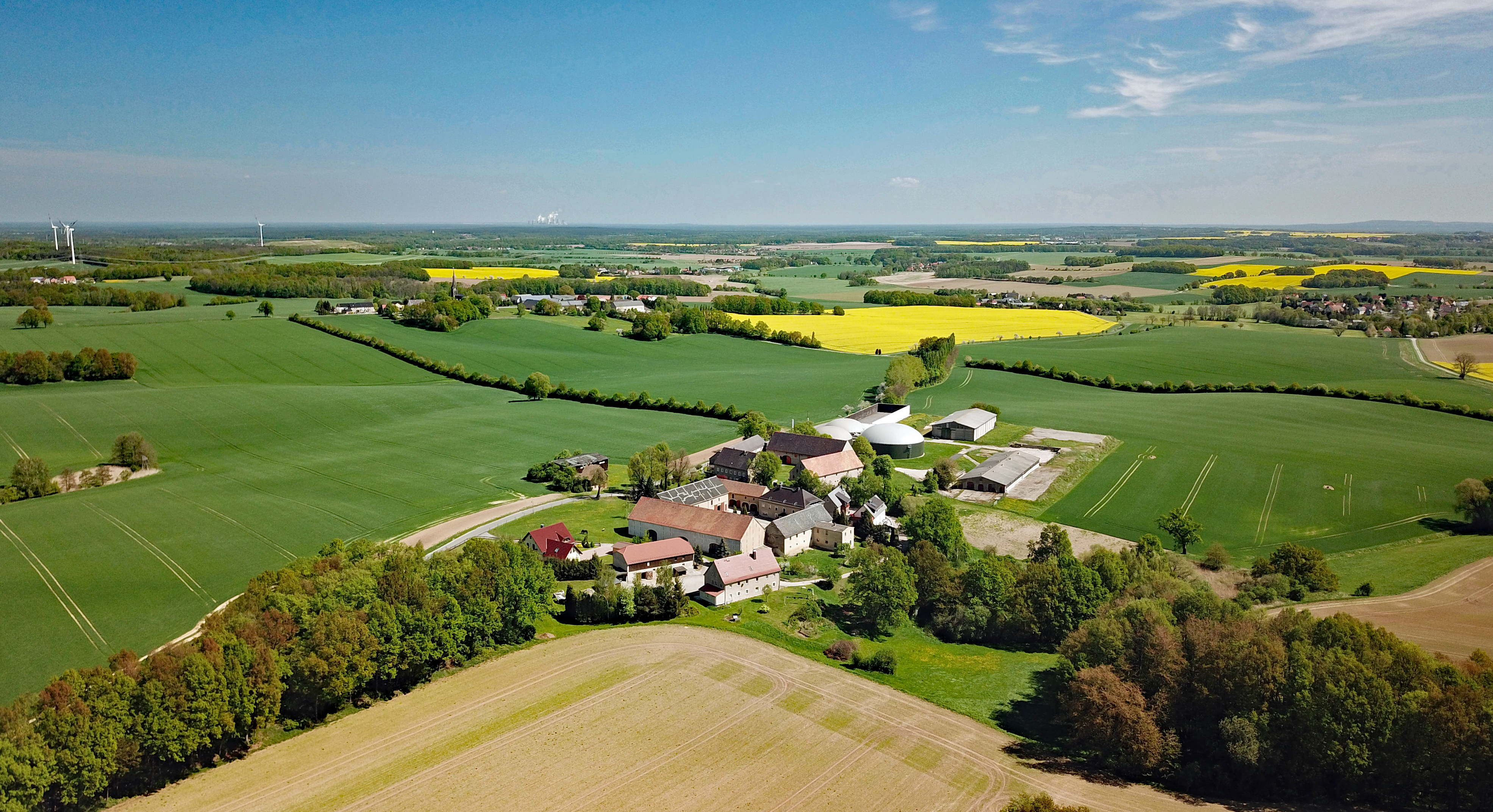 Zscharnitz (Göda, Saxony, Germany) Hornjoserbsce: Powětrowy wobraz Čornec